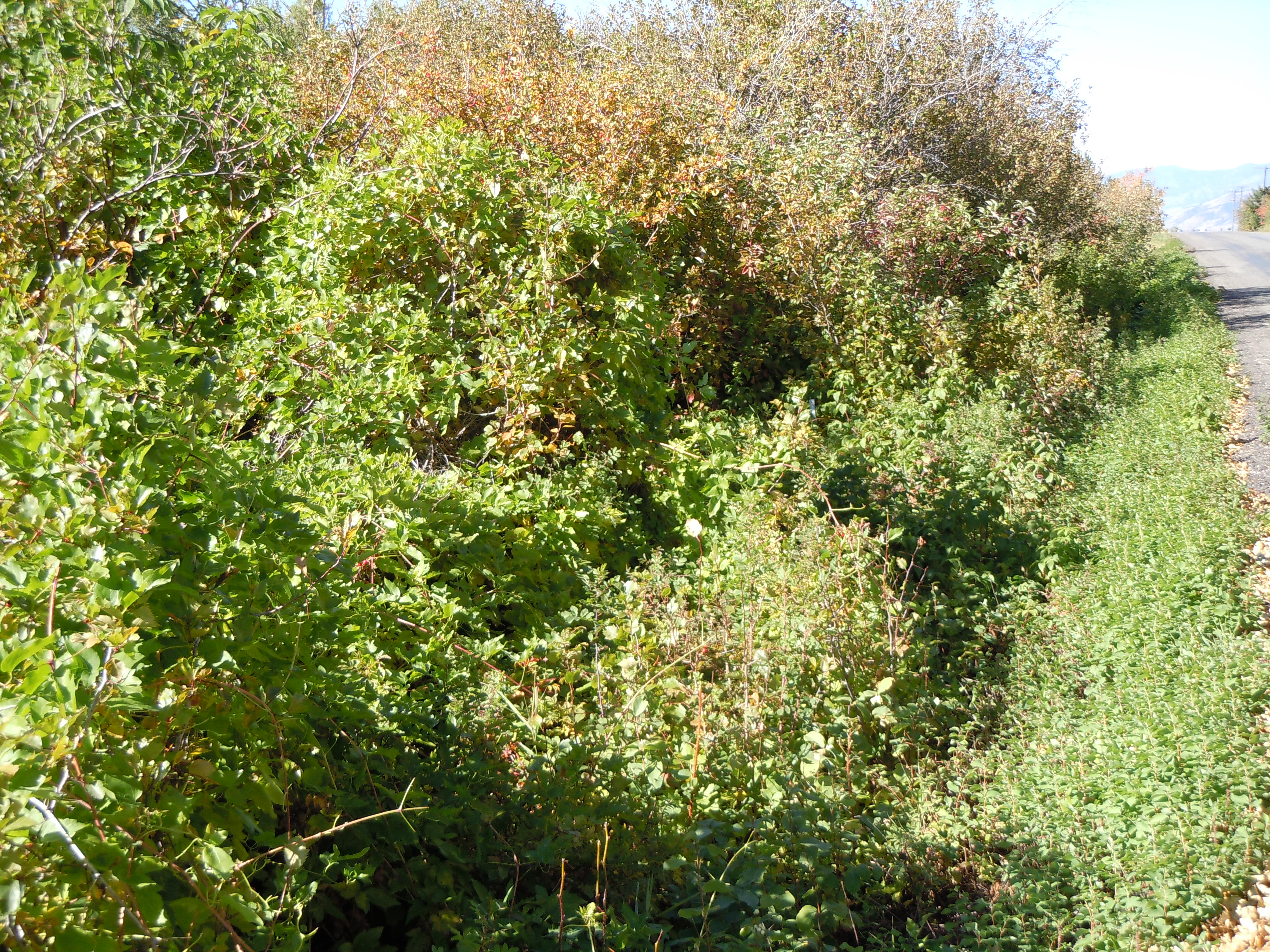 The viney sprawling habit of this native clematis allows it to cover both native and introduced shrubs and trees.